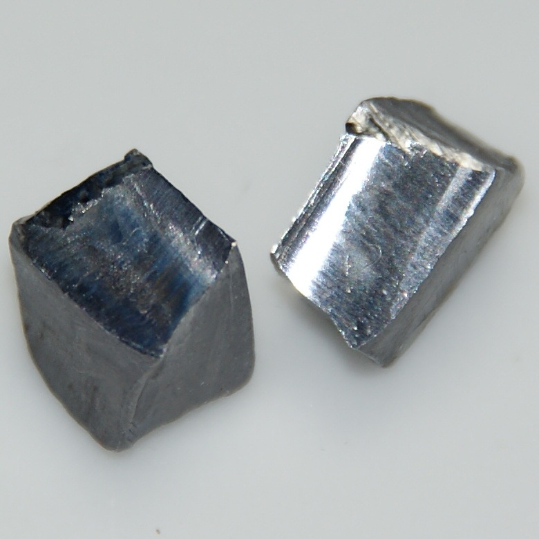 A piece of lead, cut through, is silvery for a short time, before the surface oxidizes. This was the left piece of the previous image, it was cut with a sharp knife, using a hammer.